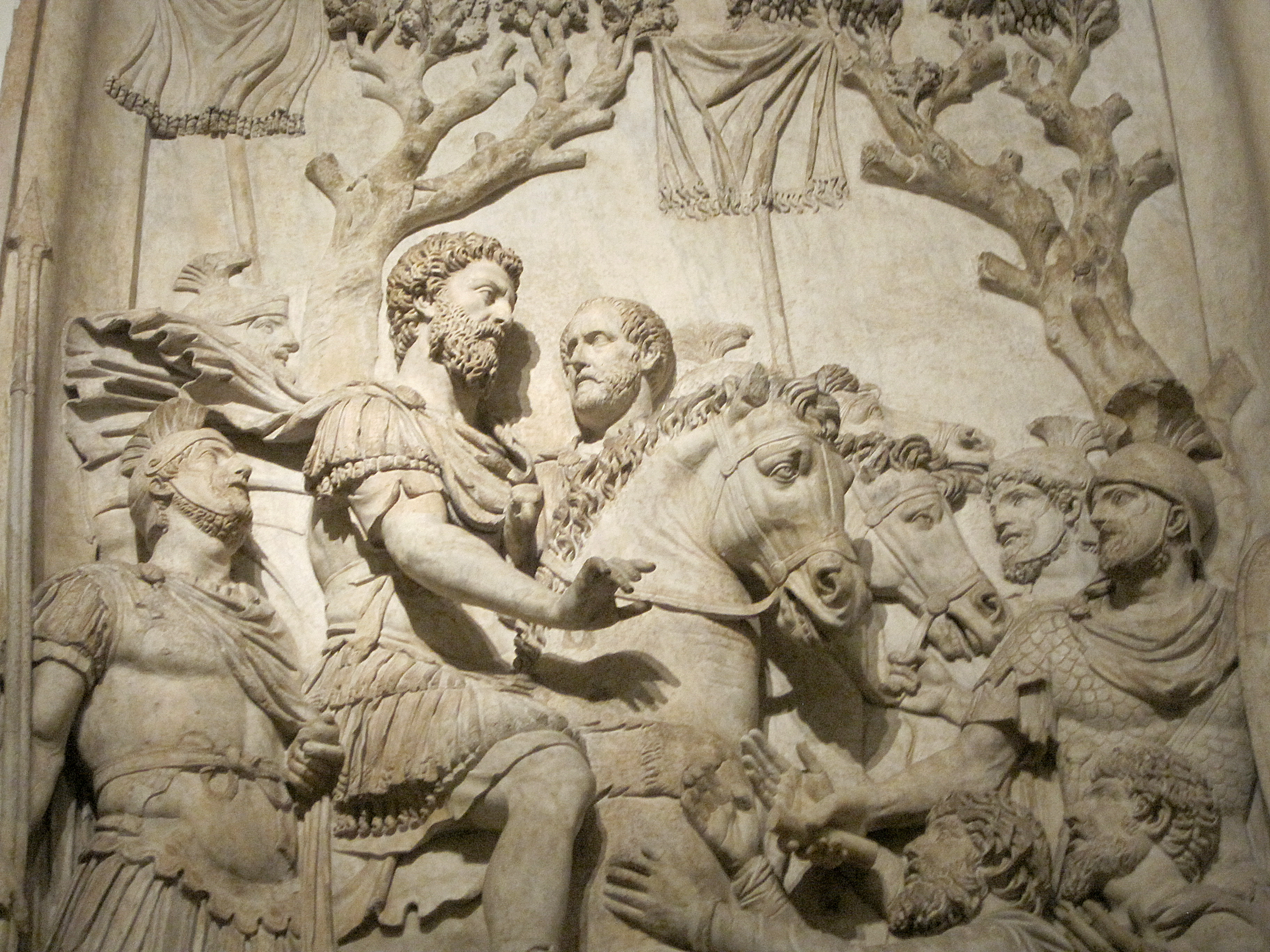 Relief from honorary monument to Marcus Aurelius representing the submission of the Germans (detail).